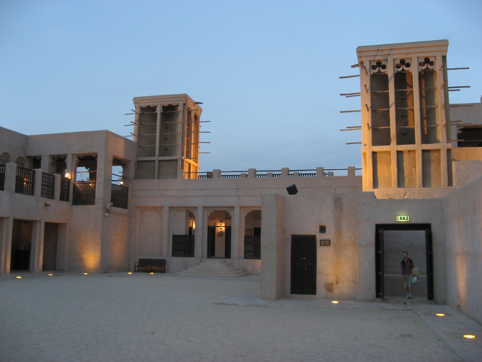 Sheikh Saeed Al Maktoum House at night